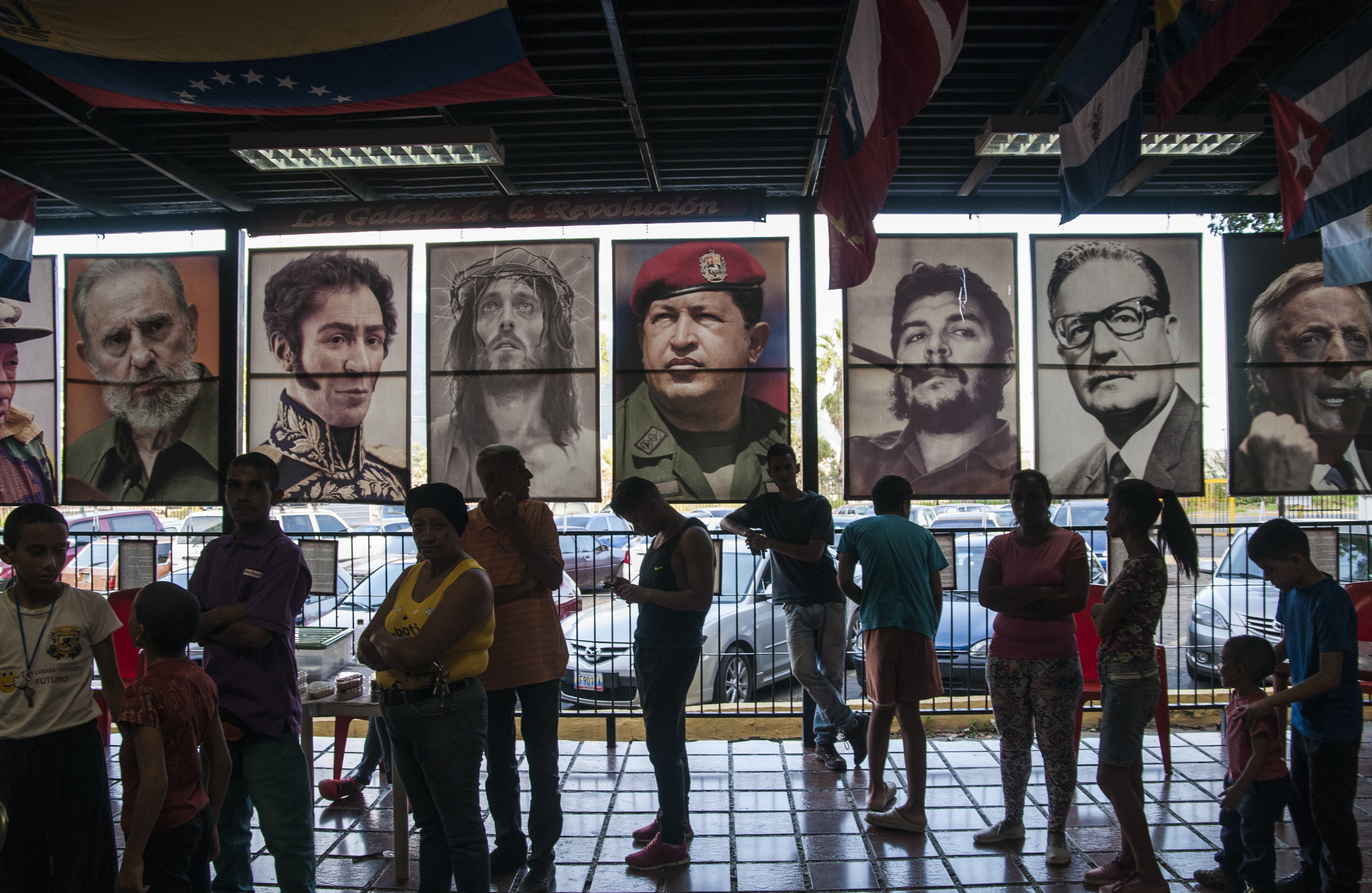 Ideological characters of 21st century socialism in the Bolivarian Republic of Venezuela.